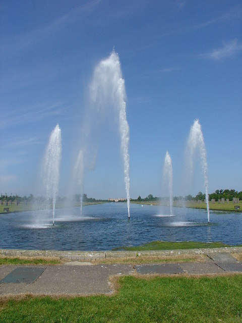 The Long Water, Hampton Court Park. This pond was laid out by William III, cutting across landscaped Hampton Court Park. Hampton Court is the focal point building at the far end of the water.